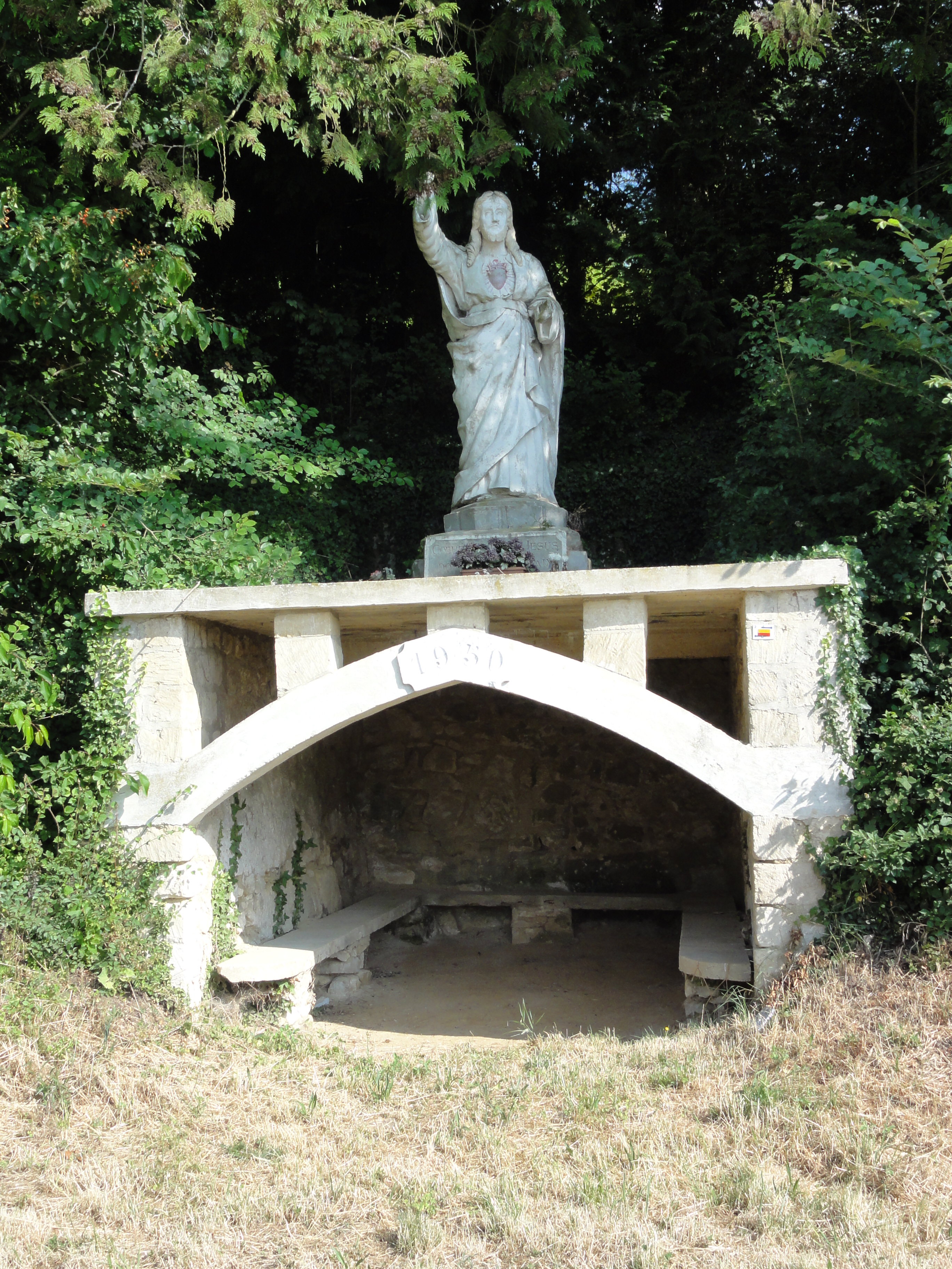 Ploisy (Aisne) statue sacré Coeur sur abri